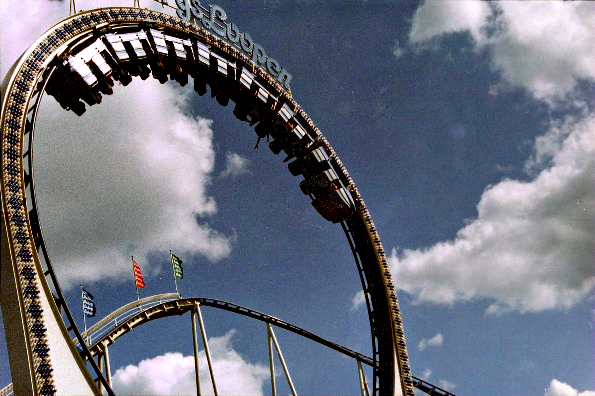 Photos from Liseberg with text in Norwegian.